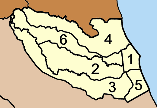 Map of Tha Chana district, Surat Thani province, with the communes (tambon) numbered Tha Chana (ท่าชนะ) Samo Thong (สมอทอง) Prasong (ประสงค์) Khan Thuli (คันธุลี) Wang (วัง) Khlong Pha (คลองพา)